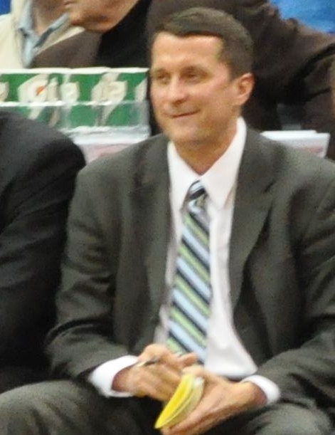 Detroit Pistons asst coach John Loyer at the Target Center holds a paper and pen.